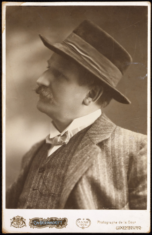 Ch[arles] Bernhoeft Anno 1908. Photographe de la Cour. Luxembourg.